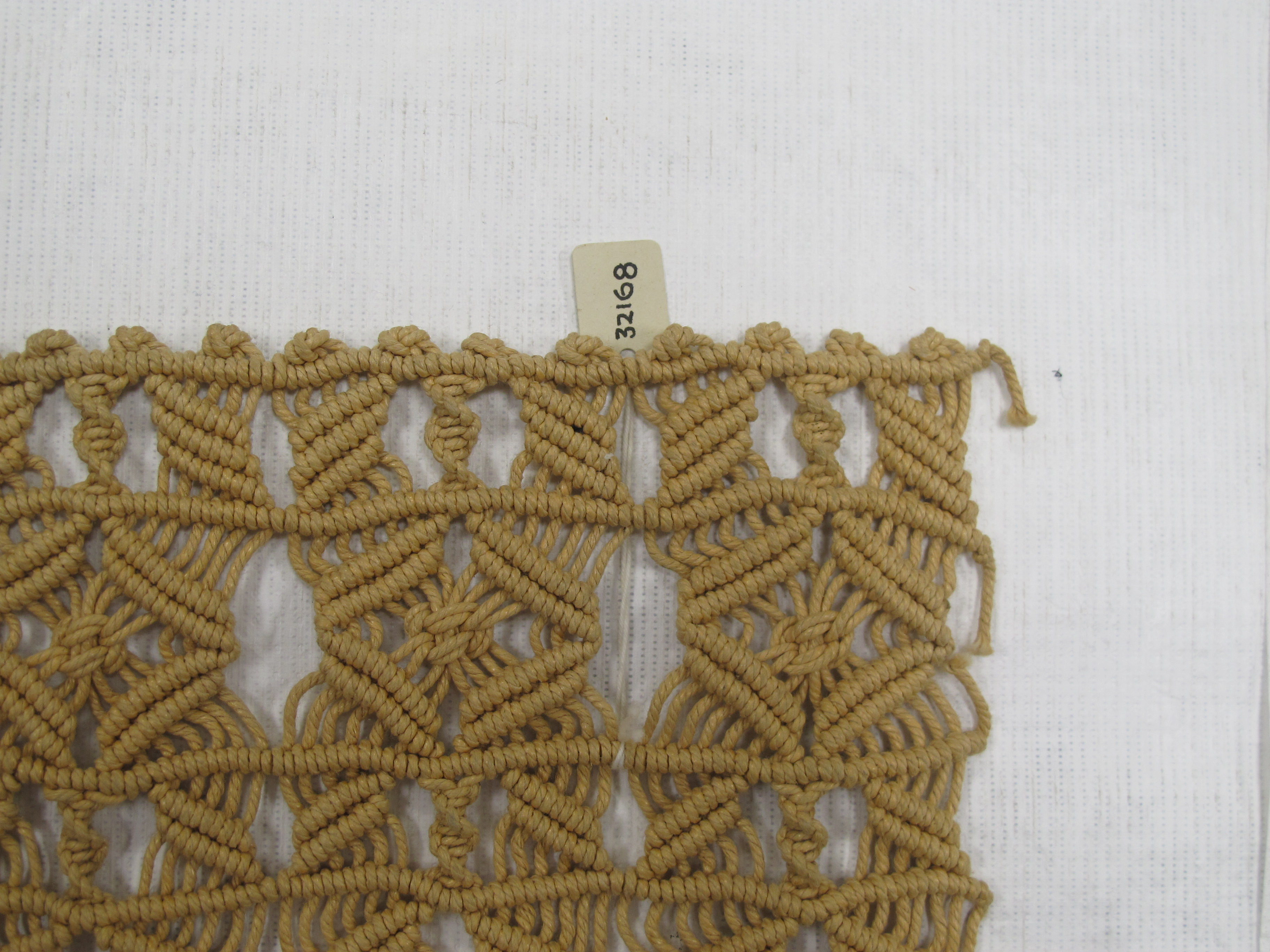 piece of macramé, unfinished